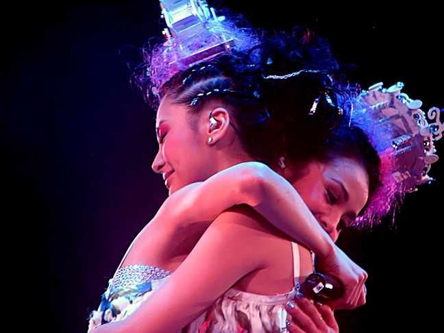 This Photo was taken on "The missing piece" concert in Hong Kong Collisuem